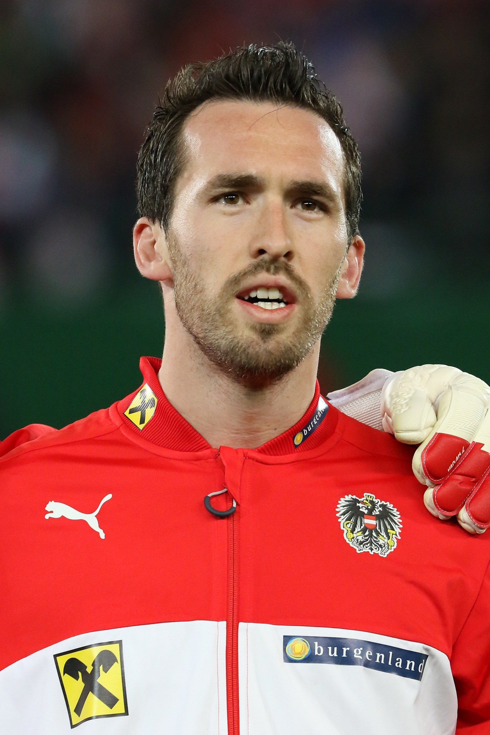 Friendly match – Austria (red shirts) vs. Turkey (blue shirts) 1–2 (1–1) on 2016-03-29 in Ernst-Happel-Stadion, Vienna – The photo shows Christian Fuchs (Leicester City).